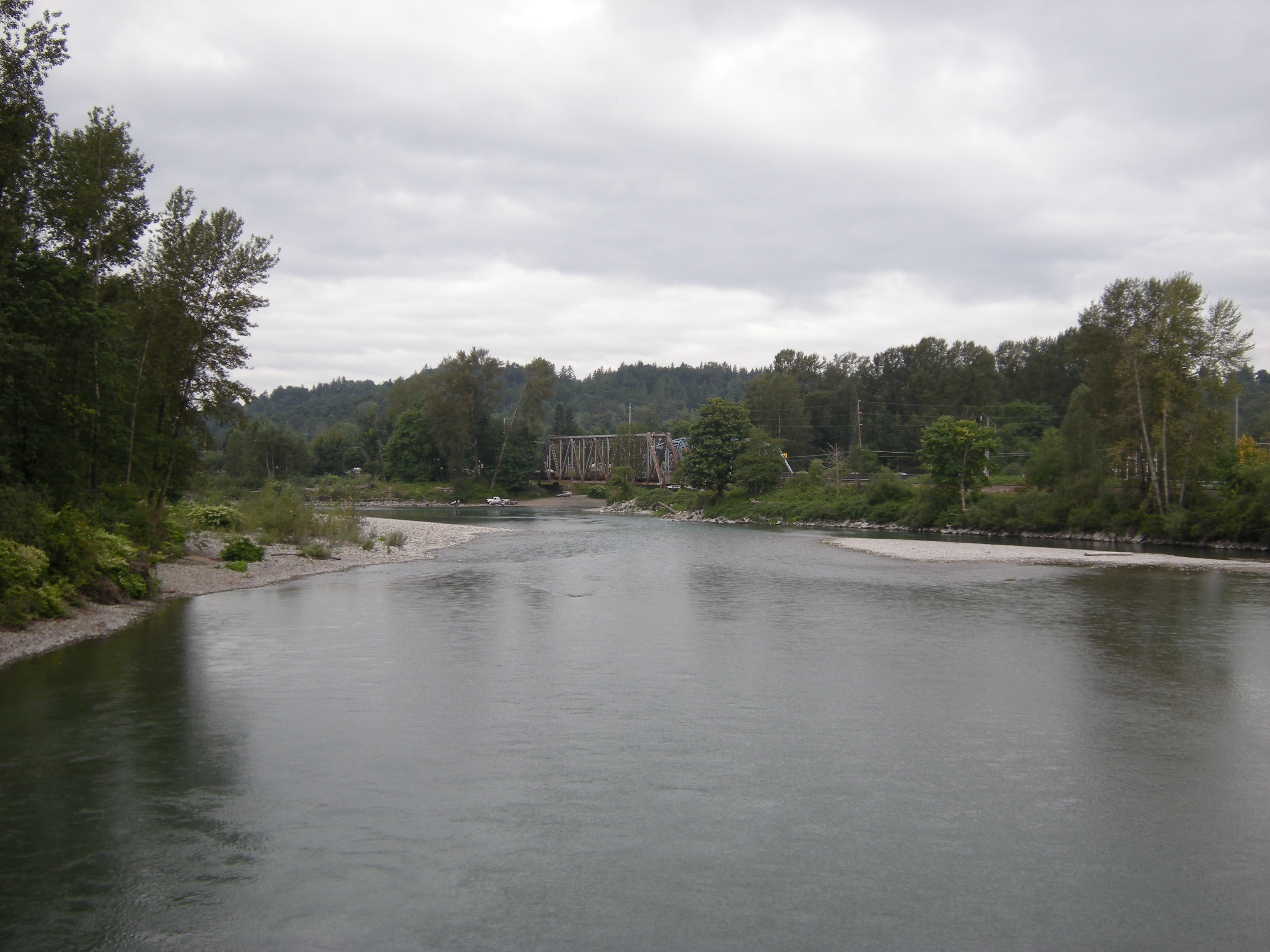 View downriver from Skyhomish River bridge at Sultan, Washington.